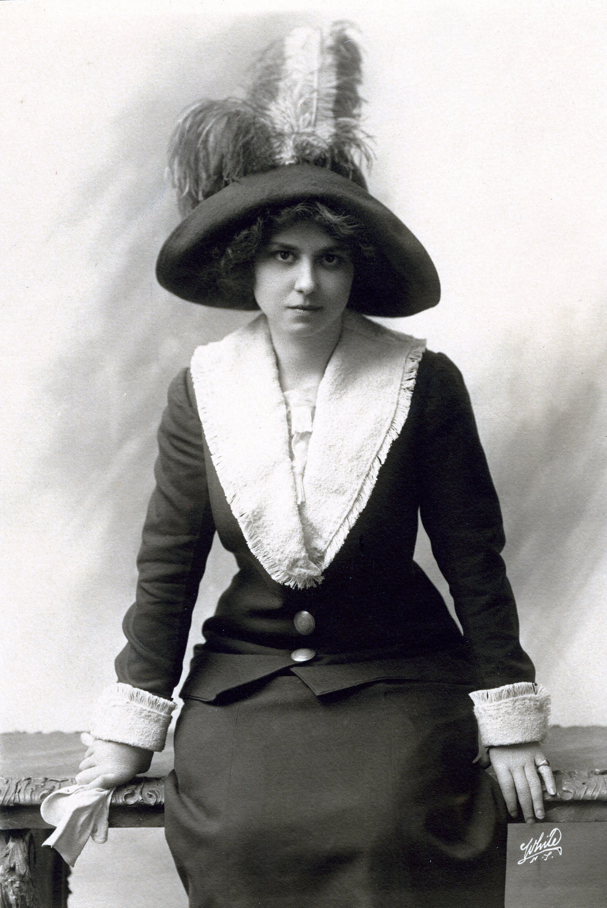 “Jean Marcet” (Anna Marcet Haldeman), ca. 1912. Scan from the family collection. (The dates on these were provided by Henry Haldeman – Marcet & Emanuel’s son and my grandfather – but I cannot vouch for their accuracy.) The original photo has the date written on the fron in pen. I've removed it here; an untouched scan is here.